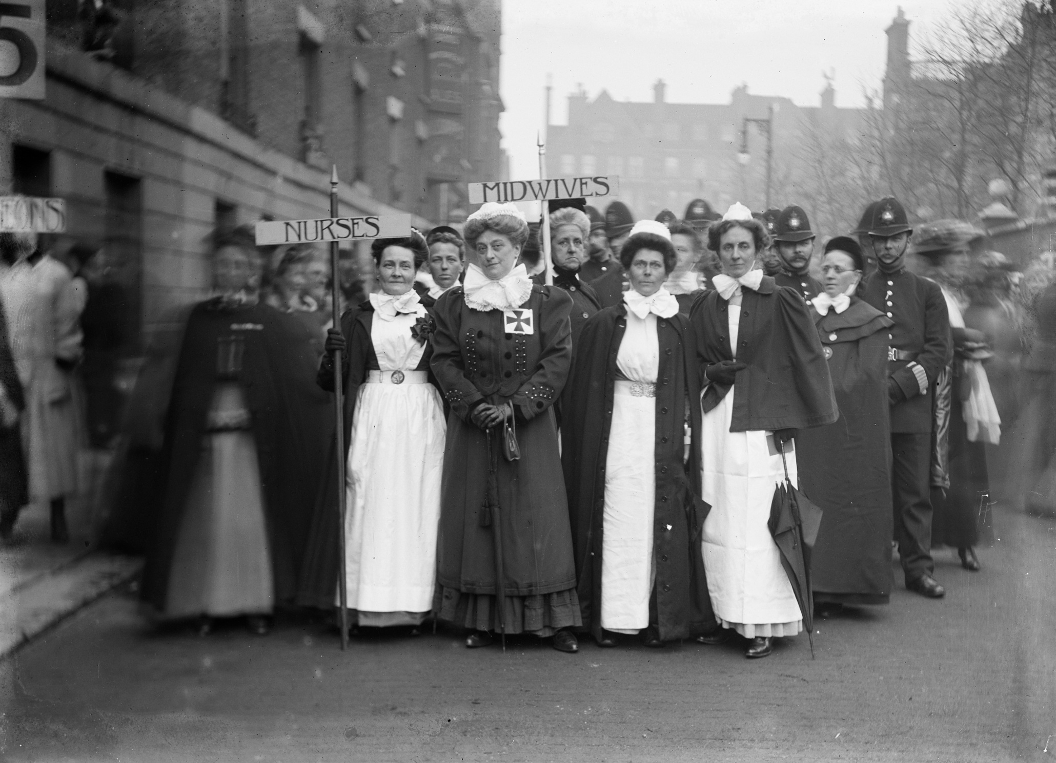 Photographs by Christina Broom who died in 1939. See file name for subject. note Emmeline Pankhurst, at Caxton Hall, June 1909